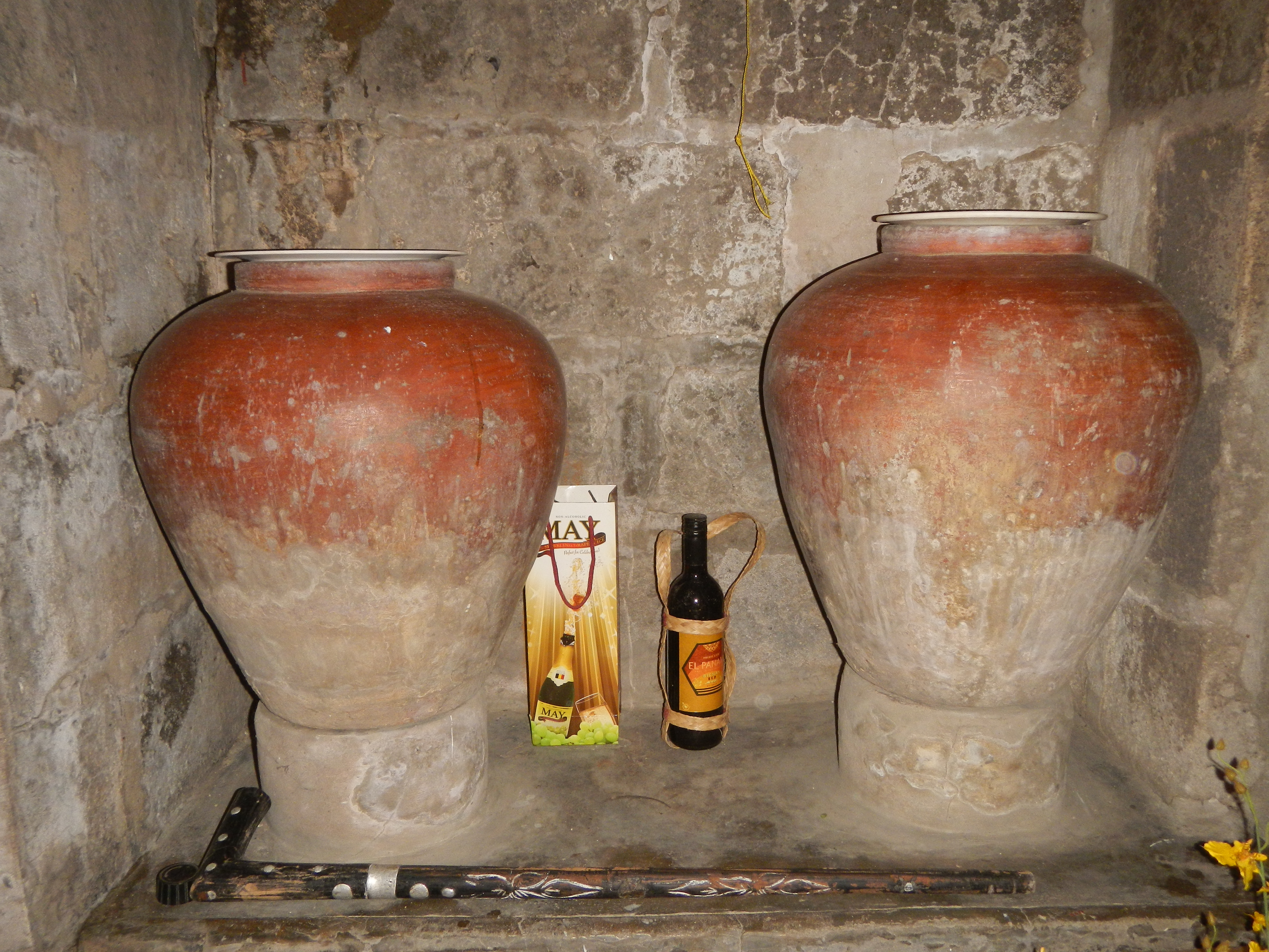 Perez Ancestral House (Bahay na Bato, Cafe Apolonio, Bustos, Bulacan) in Cenon Perez street, Barangay Bonga Menor, Bustos, Bulacan, National Cultural Heritage Act of 2009 Ancestral houses of the Philippines, (one of prime Bustos' Historic, Ancestral houses & other stone houses famous for its intricate stone carving from Spanish times, built in the mid-1800s or 1858 has the distinctive Bustos look of Baroque-style carved stone corner pilasters and columns extending up to the ceiling with wood kept to a minimum in the second storey; beside Bonga Mayor, Bustos, Bulacan, Province (in C.L. Hilario Highway corner General Alejo Santos Highway, Bustos-Angat, Bulacan connected from and to San-Rafael-Bustos-Plaridel-Balagtas by-pass road, Highway of the ]North Luzon Expressway).